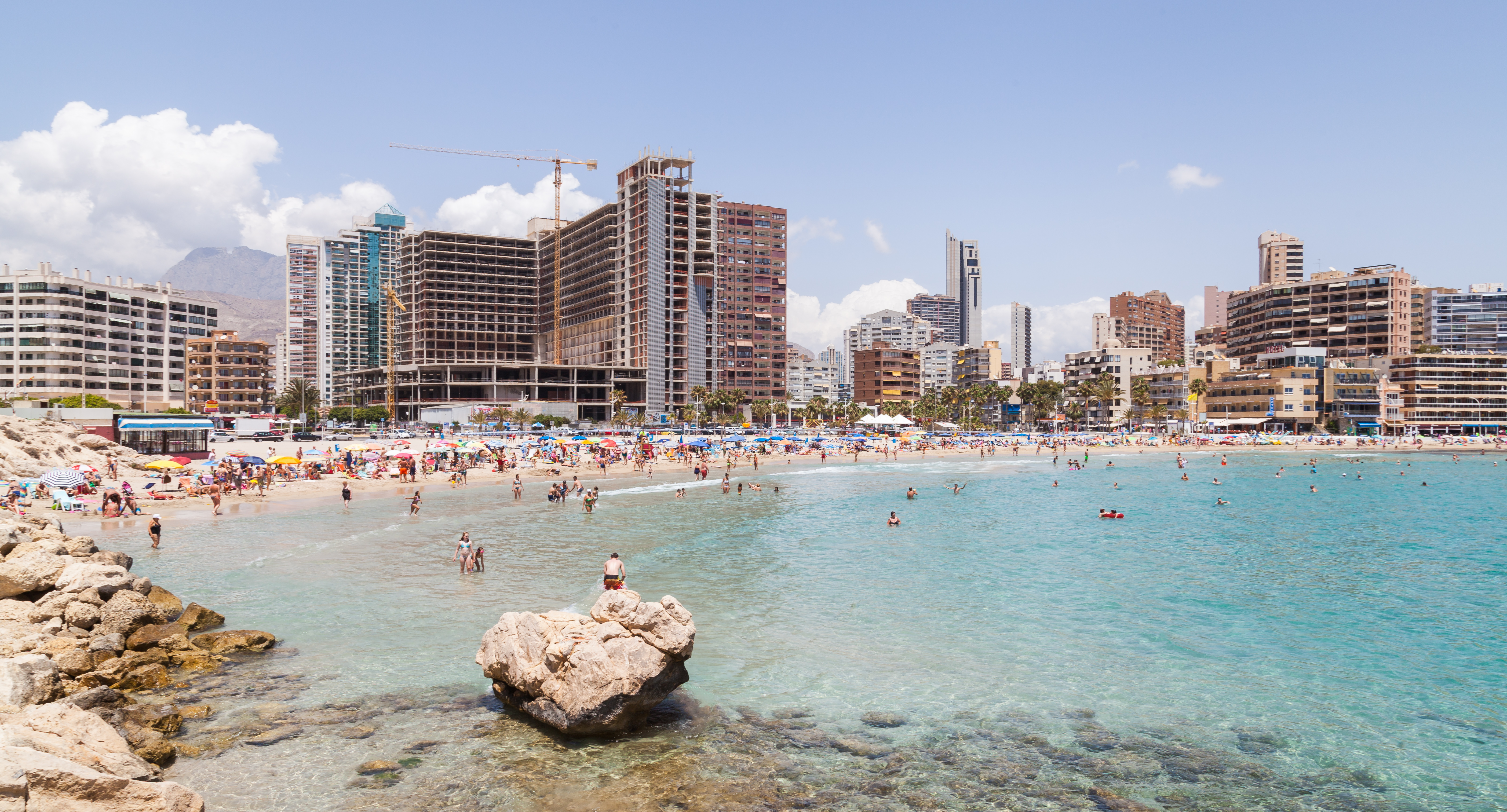 Finestrat Beach, Finestrat, Spain